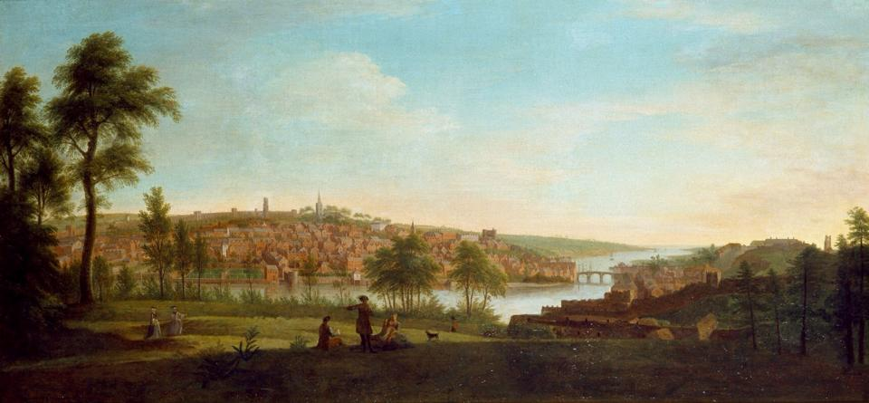 View of Drogheda from Ballsgrove by Gabriele Ricciardelli. Painted during the years 1750 -1755. Oil-on-canvas, and measures 28 x 60 inches. One of a pair, both these pictures are in Drogheda.